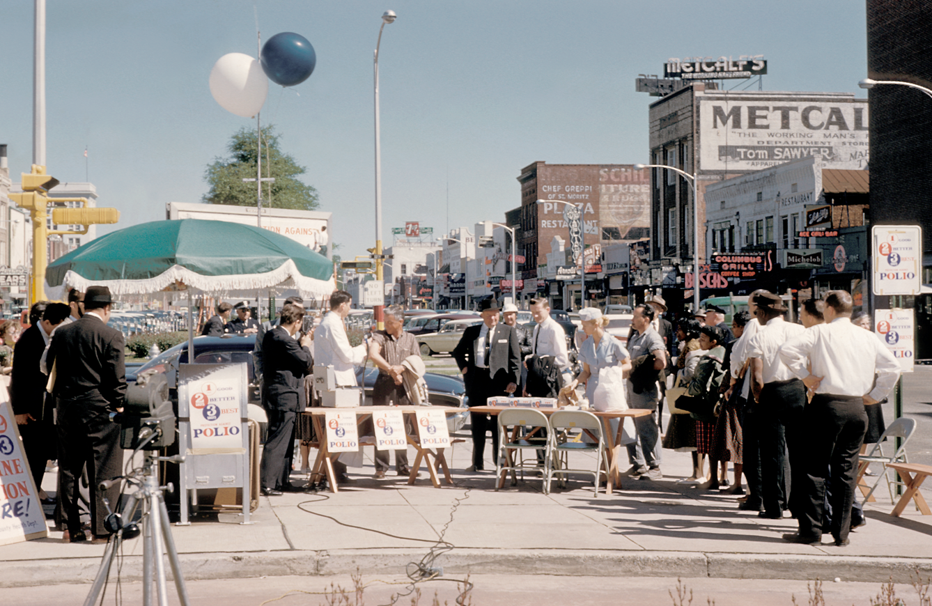 People in Columbus, Georgia awaiting polio vaccination during the earlier days of the National Polio Immunization Program. In the early 1950's, there were more than 20,000 cases of polio each year. After polio vaccination began in 1955, cases dropped significantly. By 1960, the number of cases dropped to about 3,000, and by 1979 there were only about 10. PHIL 2445